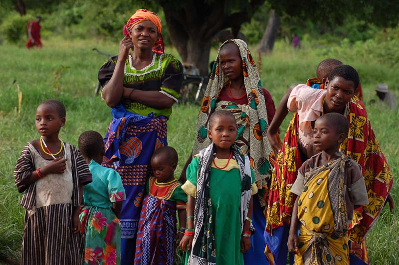 Sukuma women and children of Tanzania.